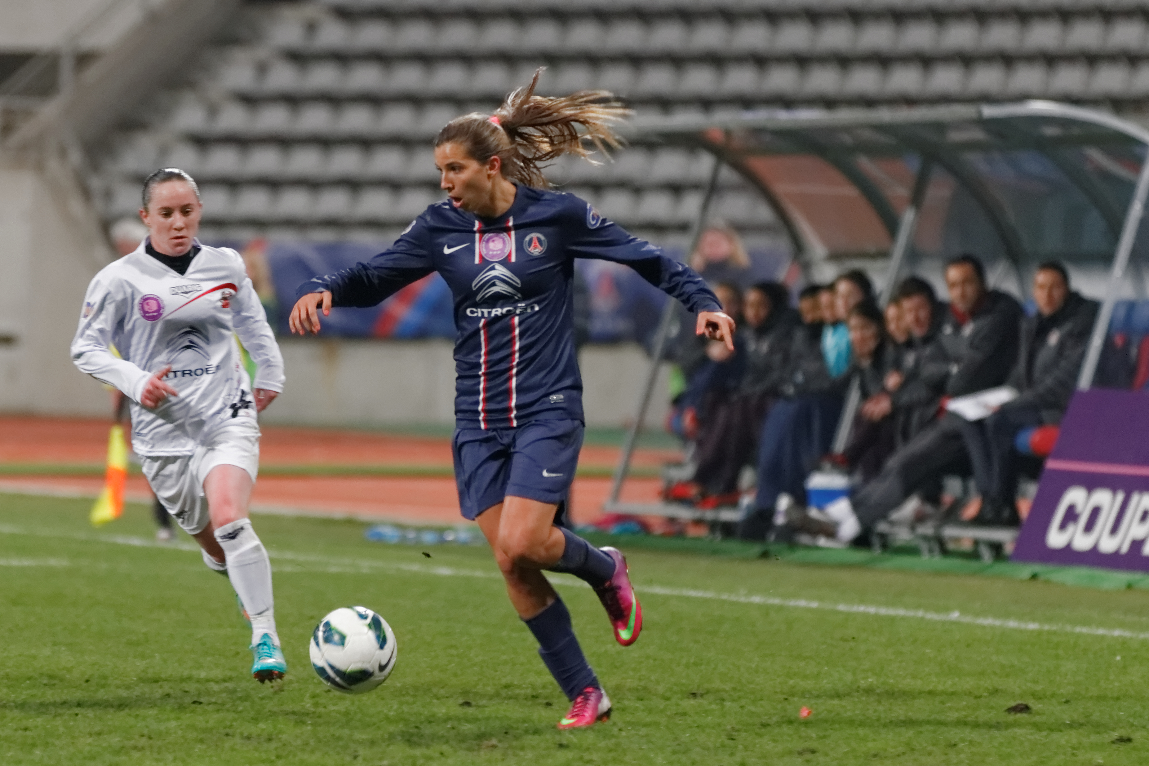 PSG-Juvisy, March 23th, 2013.